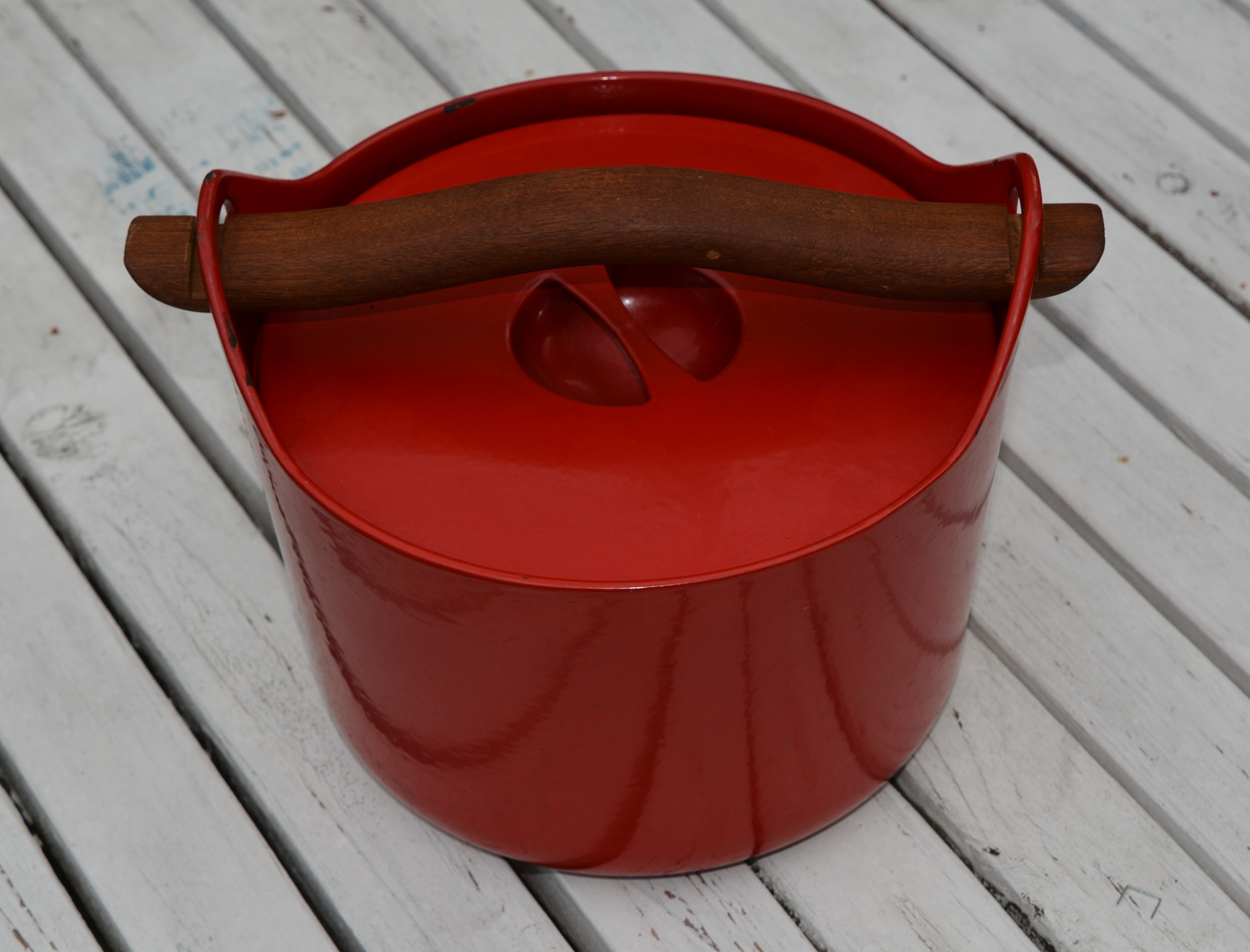 Emaljerad gryta från Rosenlew